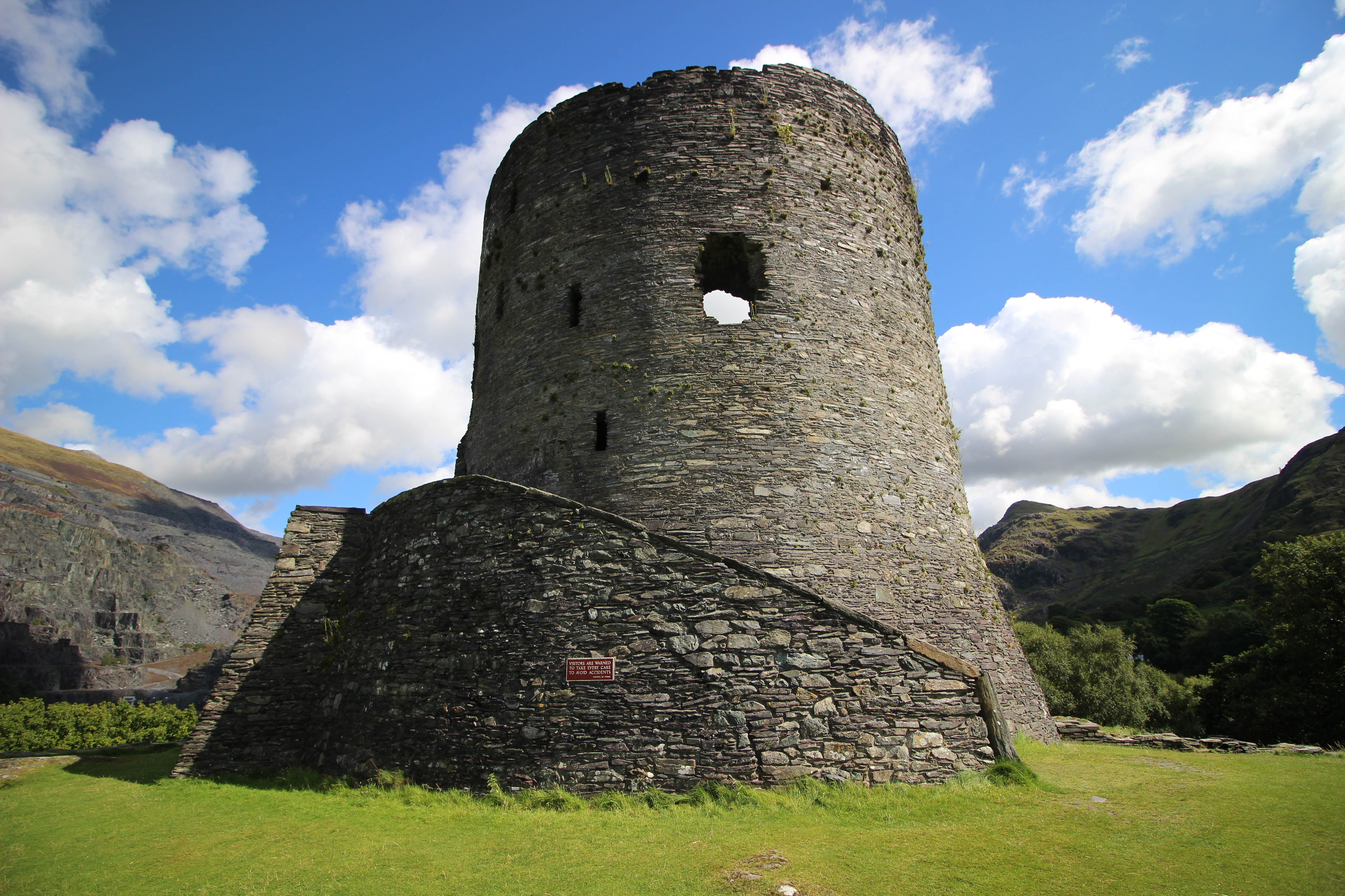 Dolbadarn Castle Wikidata has entry Q2078555 with data related to this item.